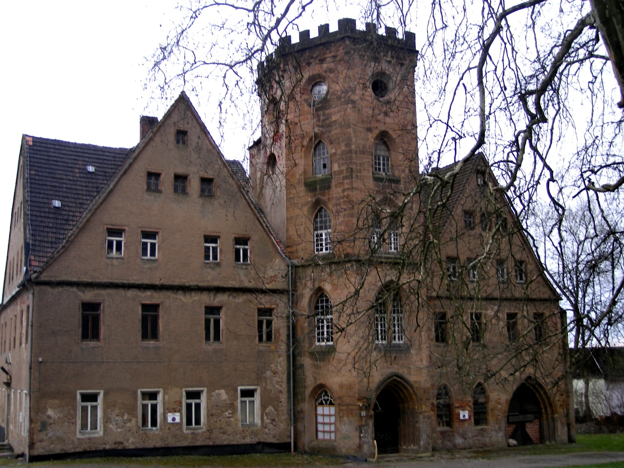 This picture shows the castle of Poschwitz, Altenburg, Thuringia, Germany